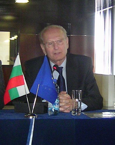 Candidate Nedelcho Beronov during the Bulgarian presidential election, 2006